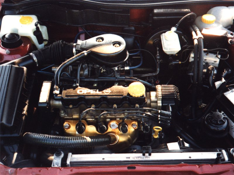 X16SZR (75 hp) engine